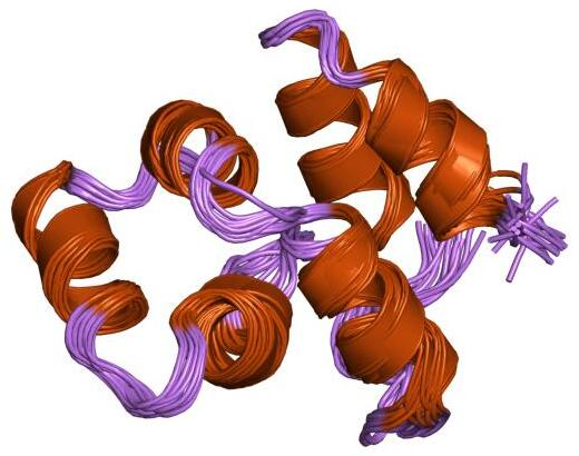 Cartoon representation of the molecular structure of protein registered with 1ngr code.